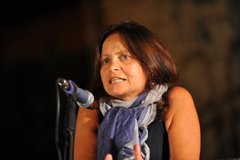 A photo of political philosopher Nadia Urbinati